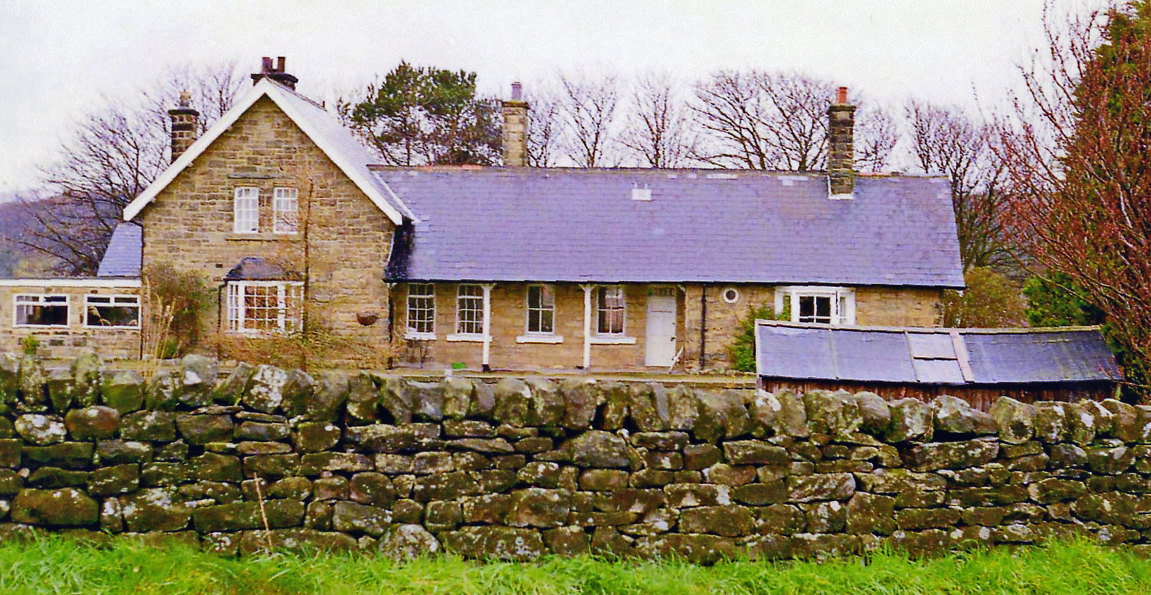 Former Cloughton station, 1989. View westward, across the course of the ex-NER Scarborough (to left) - (to right) Whitby - Middlesbrough line. The station closed, along with the line as far as Whitby, from 8/3/65 and has been splendidly restored.